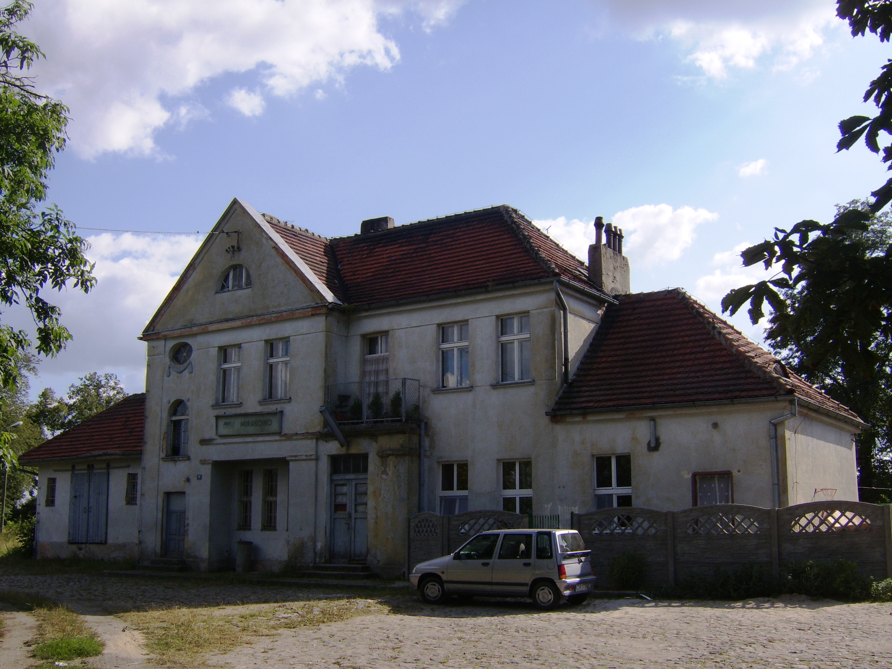 The railway station in Mirakowo